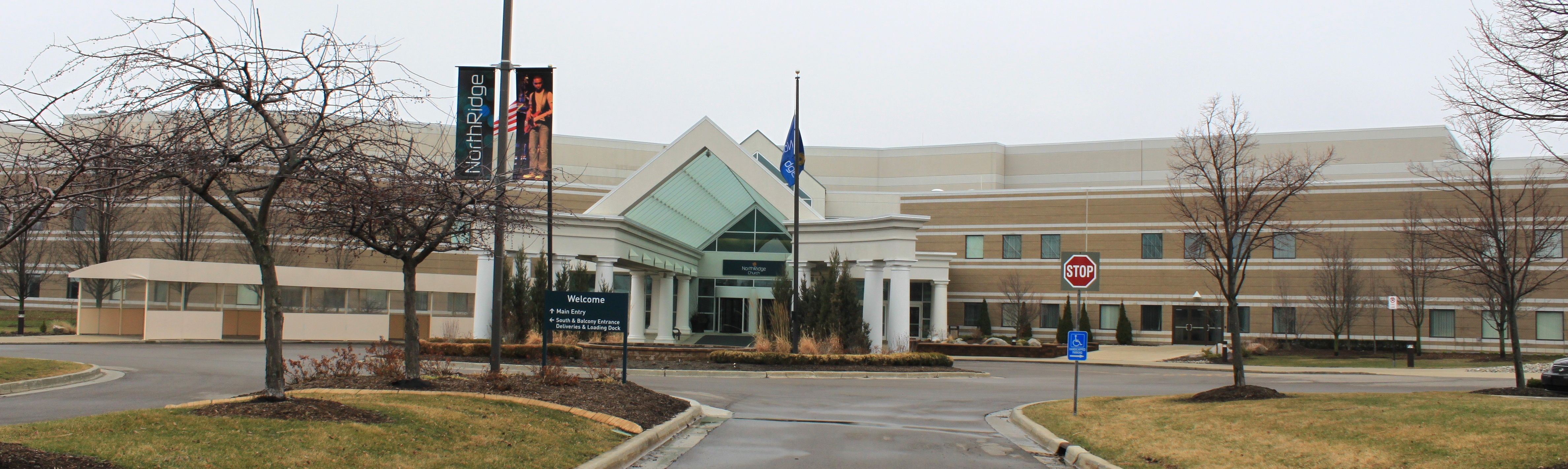 NorthRidge megachurch, 49555 North Territorial Road, Plymouth, Michigan